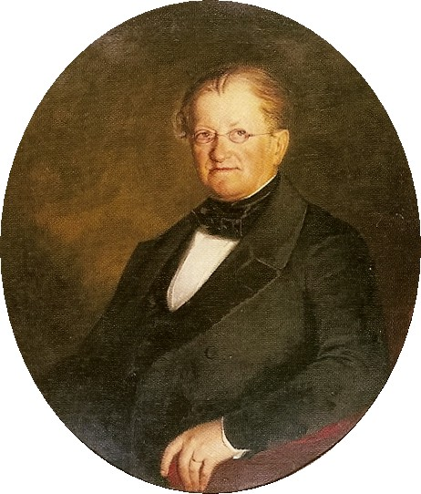 Portrait of Carl Adolph Terscheck.